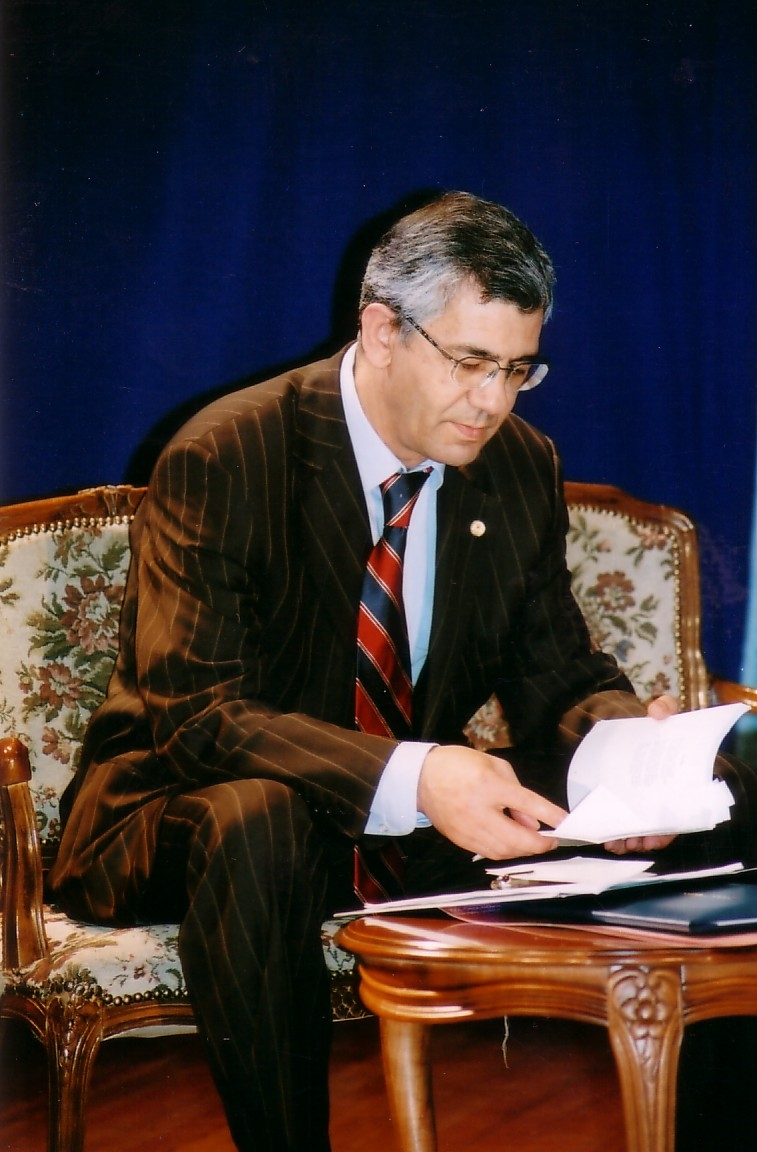 Poeziya